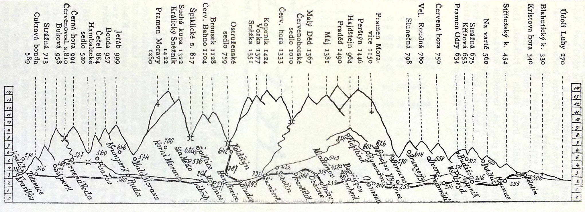 Altitudes in the former region of Sudetenland, nowadays the Czech Republic, according to the Ottův slovník naučný, 1901.